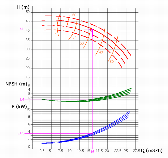 Example of a characteristic curve of a centrifugal pump Author : R. Castelnuovo (myself) 2005 09 26